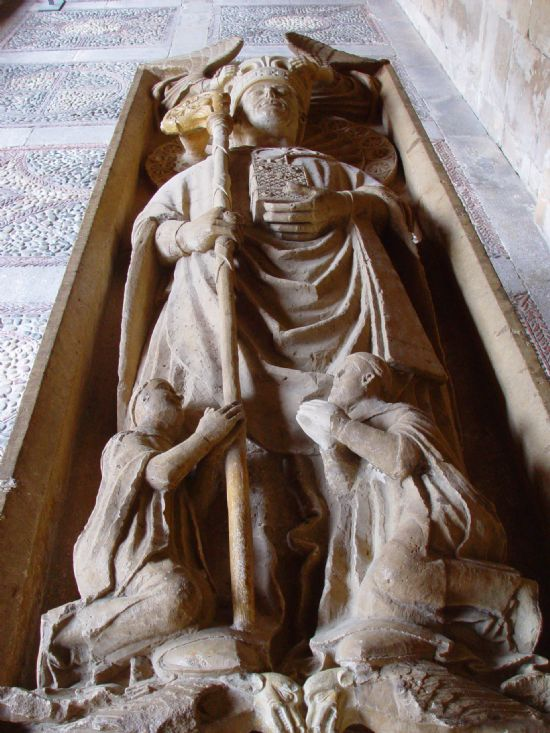 Saint Dominic of Silos' tomb, at Santo Domingo de Silos, Burgos, Spain.